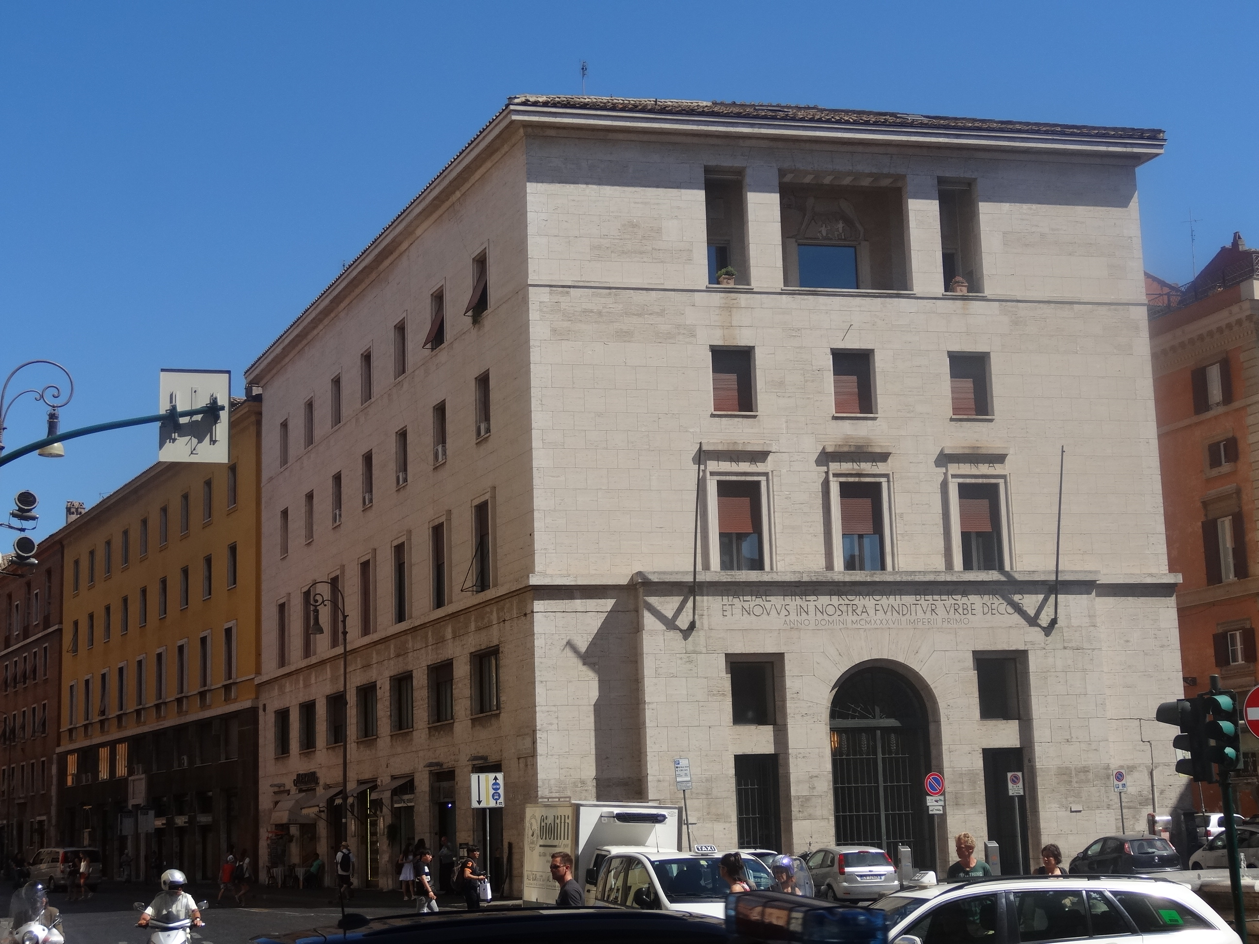 Piazza di Sant'Andrea della Valle